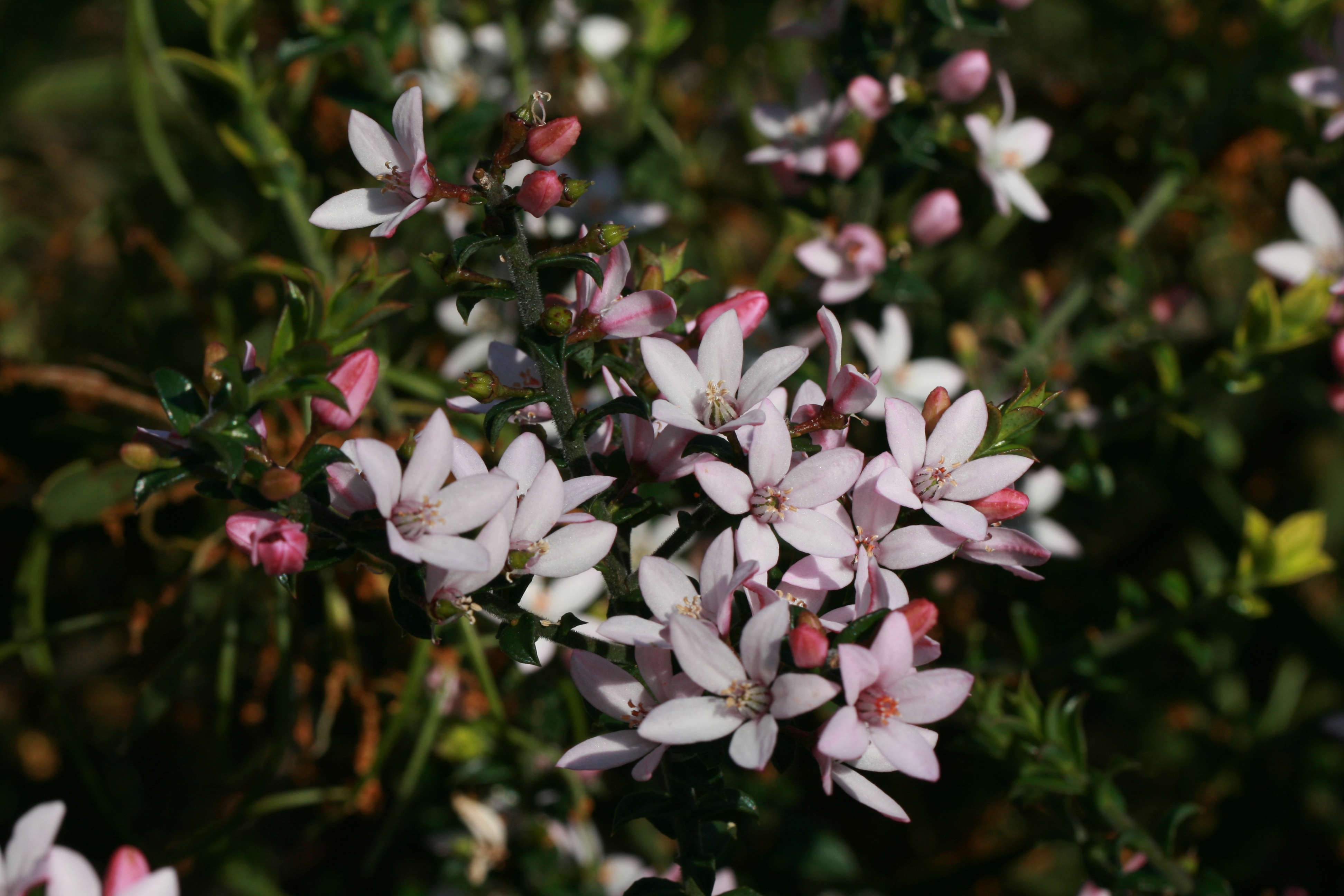 Philotheca buxifolia on Middle Head in Sydney, New South Wales, Australia. Wide view.